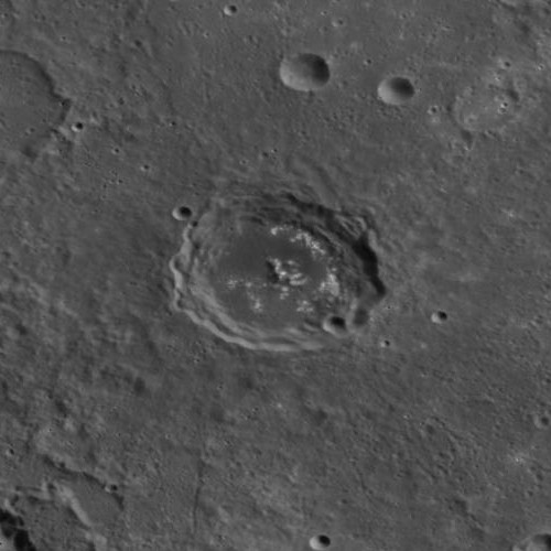 Nampeyo crater, on Mercury. MESSENGER Wide Angle Camera mosaic. Image is approximately 164 km wide.